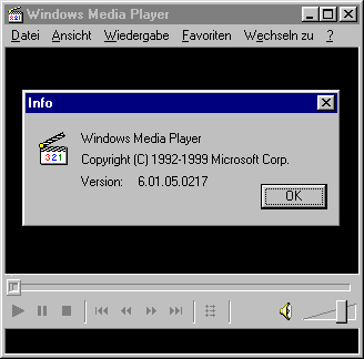 Windows Media Player 6.01.05.0217 under Windows 95